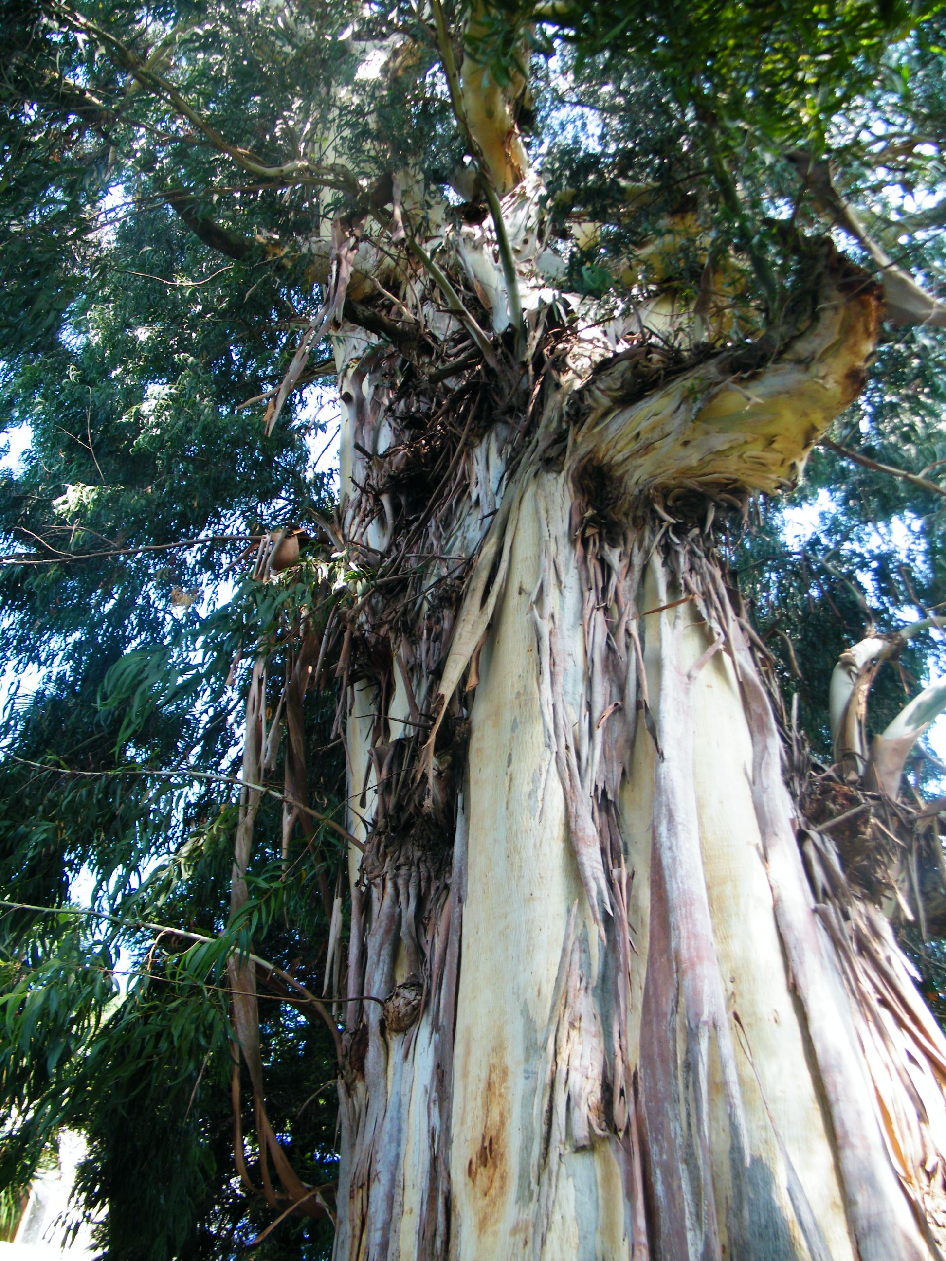 Trunk of Eucalyptus viminalis